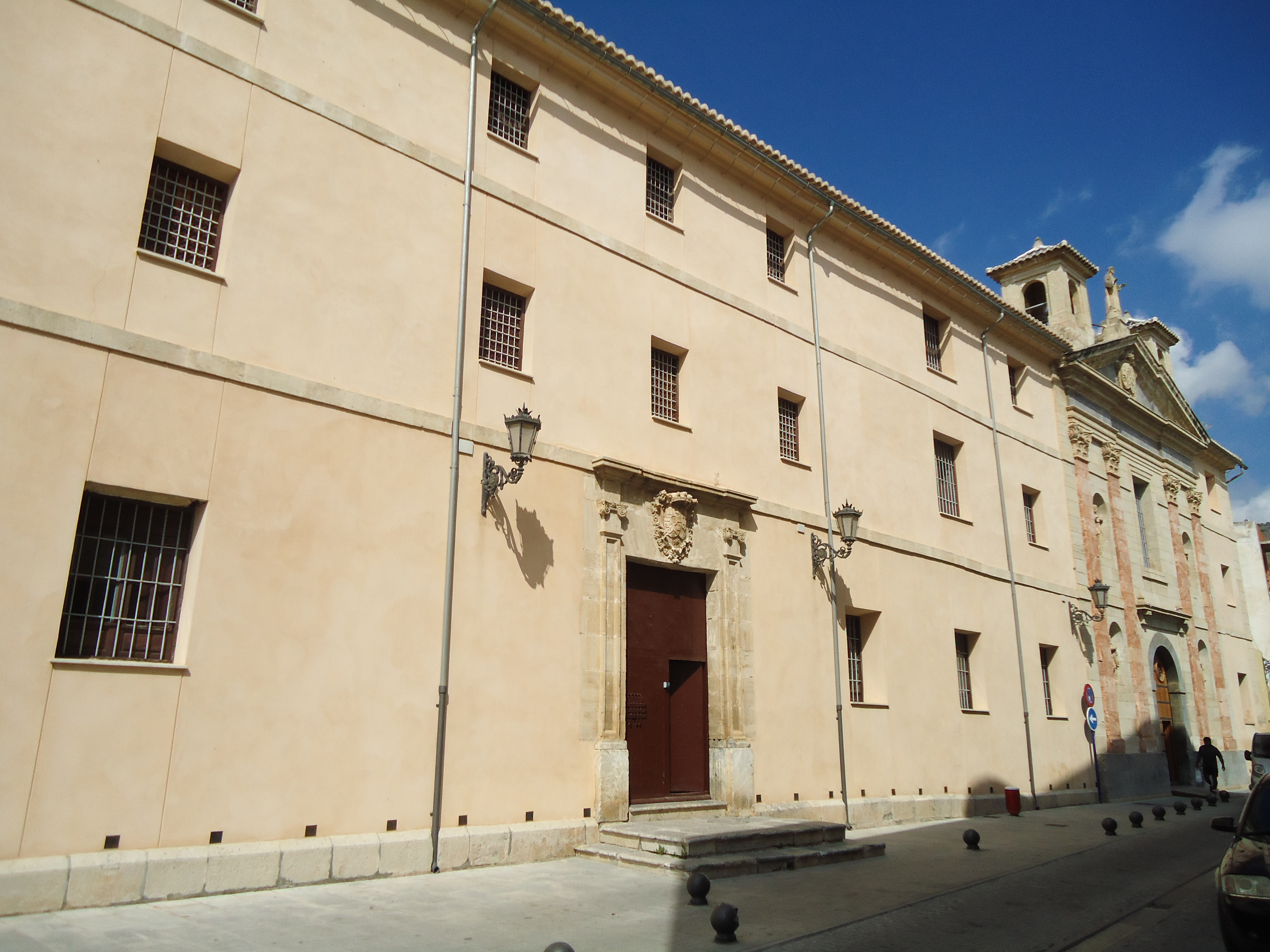 Convent de "Las Salesas", Oriola.